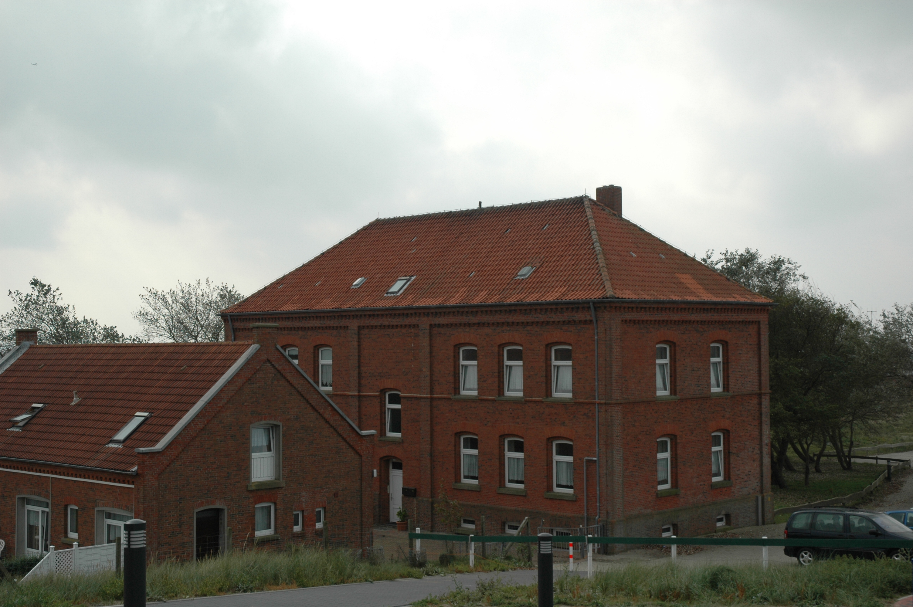 House of lighthouse keeper on Norderney